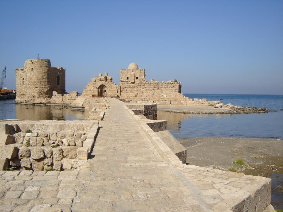 Sea castle in Sidon, Lebanon